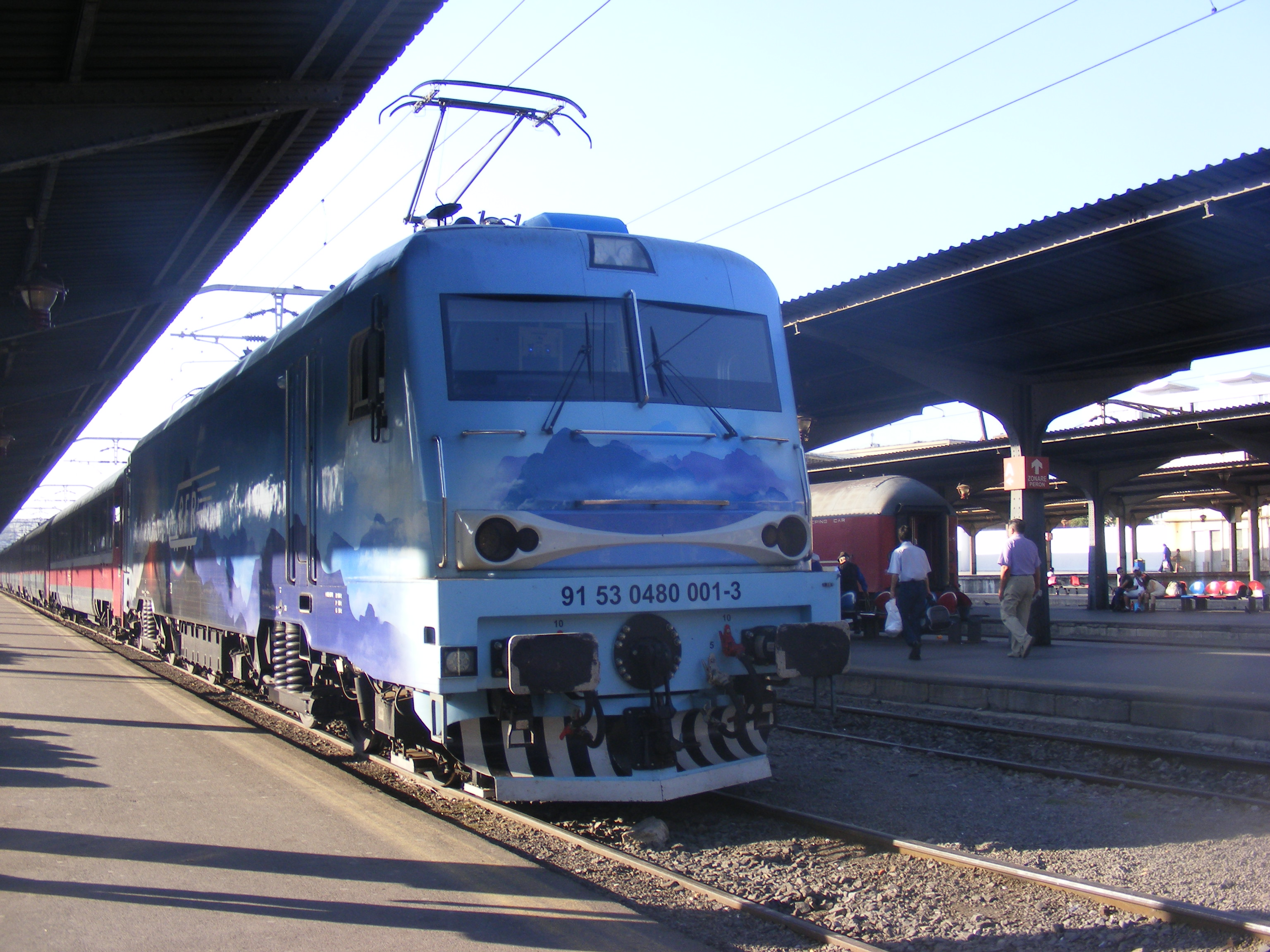 Softronic Transmontana prototype in Gara de Nord